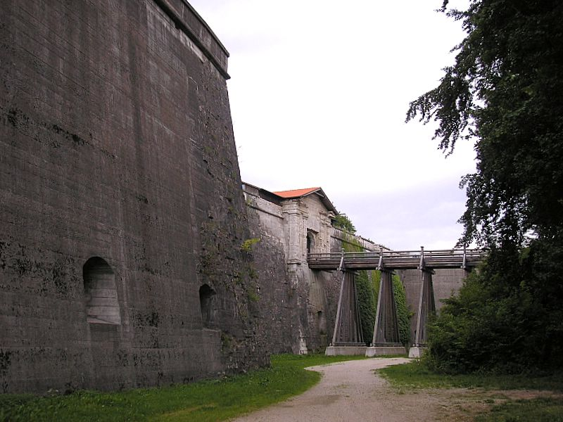 Fortress Rothenberg (Middle Franconia, Germany). Bridge and gate.